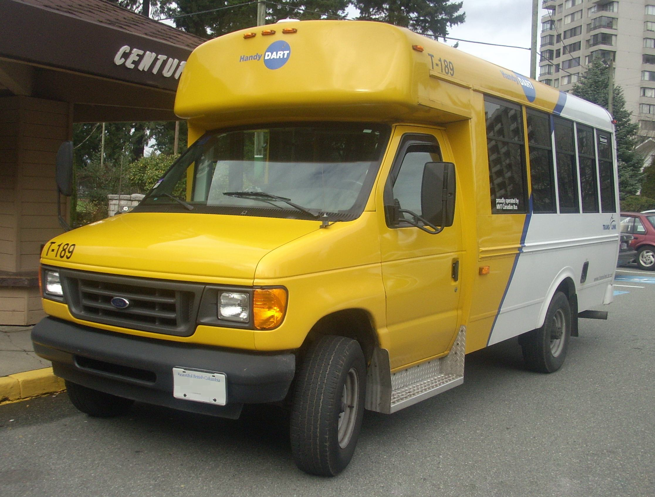 Ford E-Series photographed in New Westminster, British Coumbia, Canada.